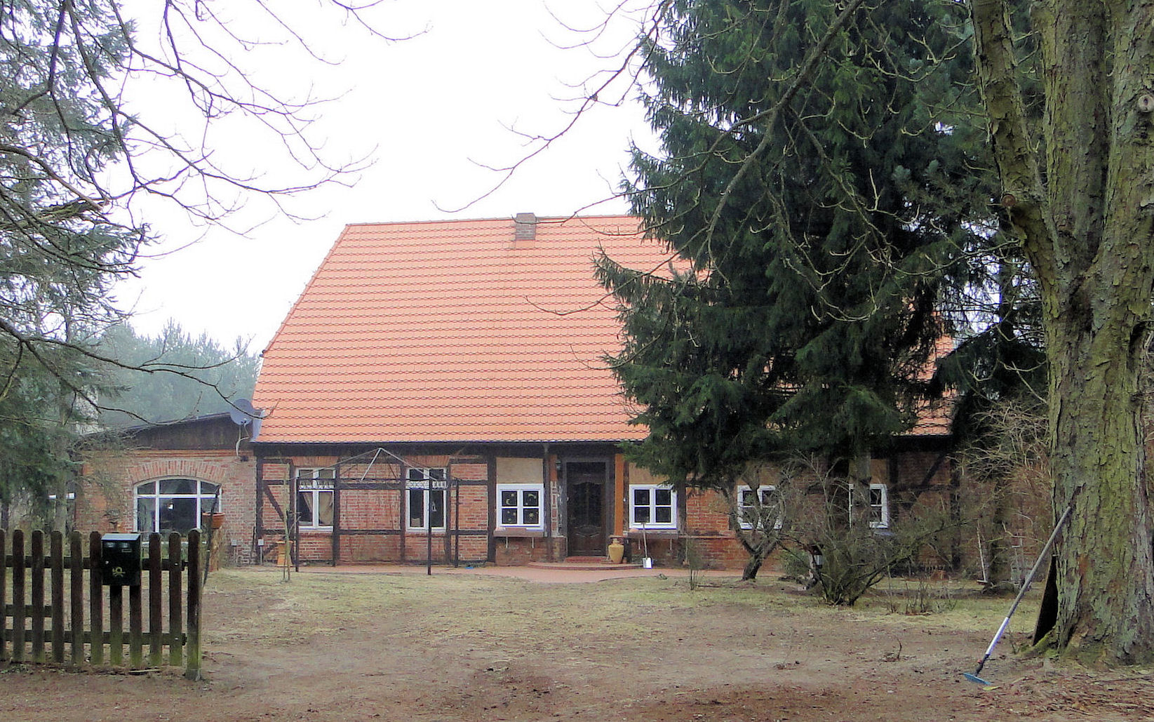 Forester's lodge in Jellen, district Ludwigslust-Parchim, Mecklenburg-Vorpommern, Germany